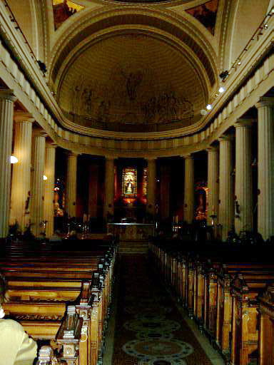 shot of Pro-Cathedral in Dublin. My image. No c/r